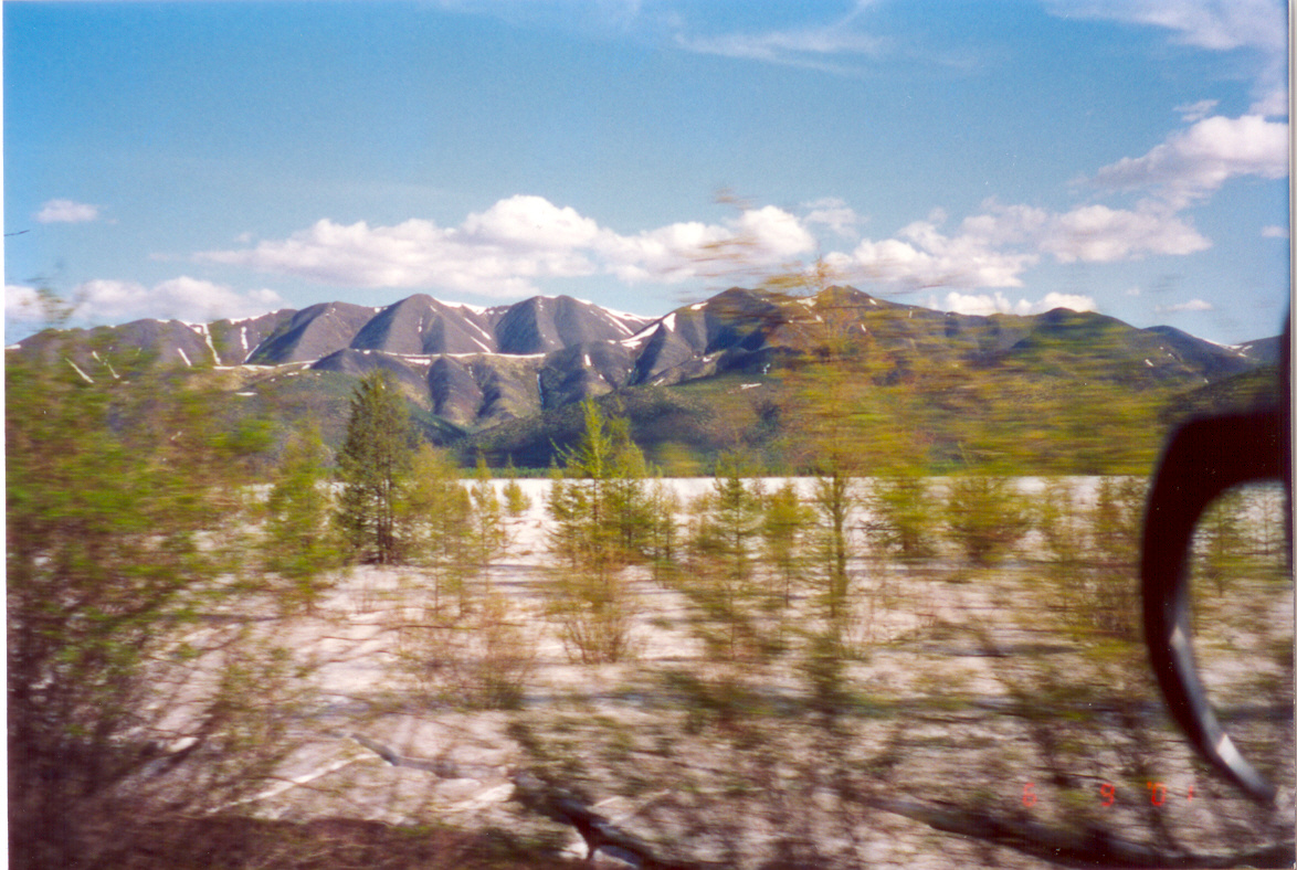 Somewhere north of Magadan on the Kolyma.